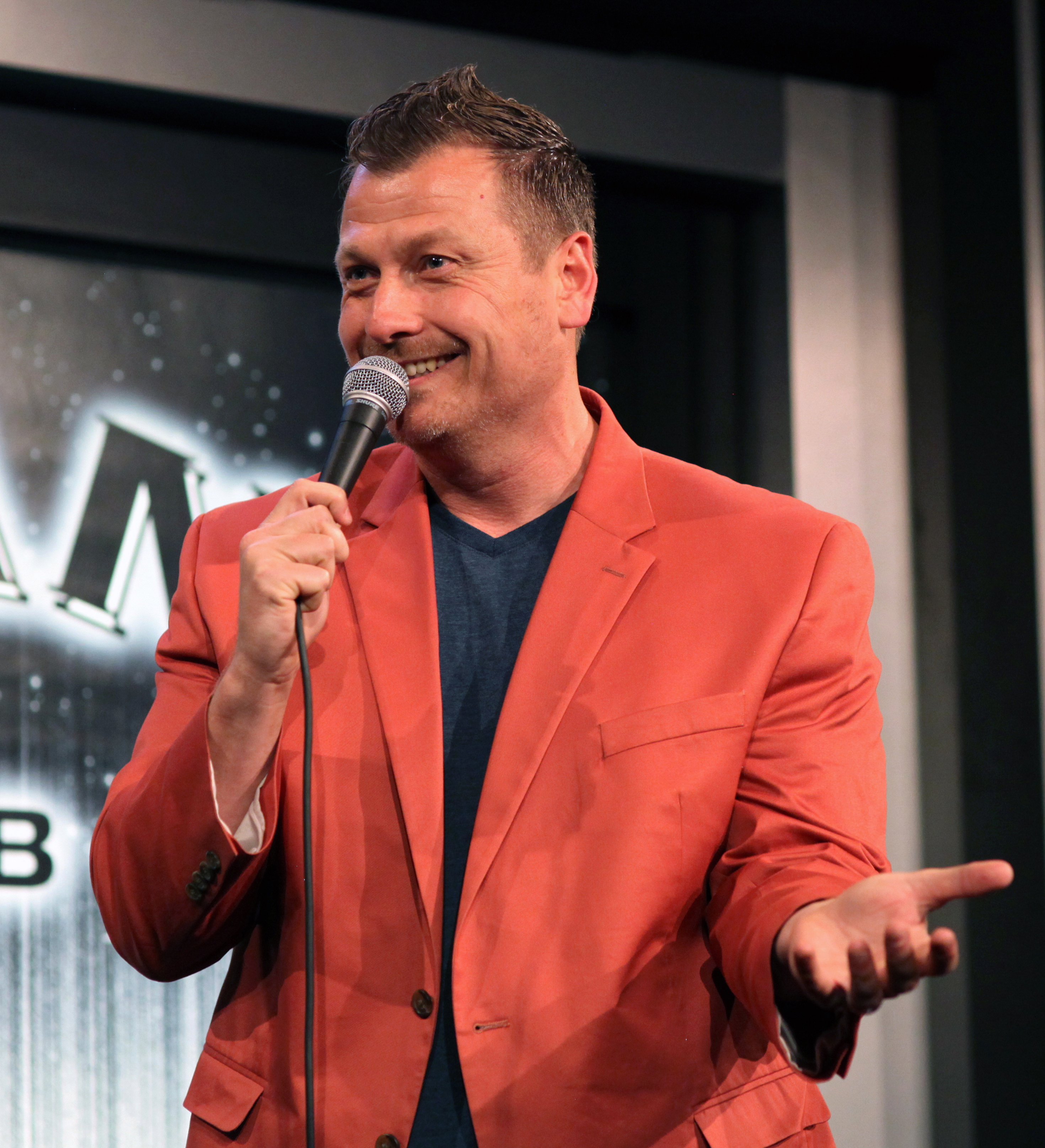 Jimmy Failla performing at Gotham Comedy Club on May 2, 2016.